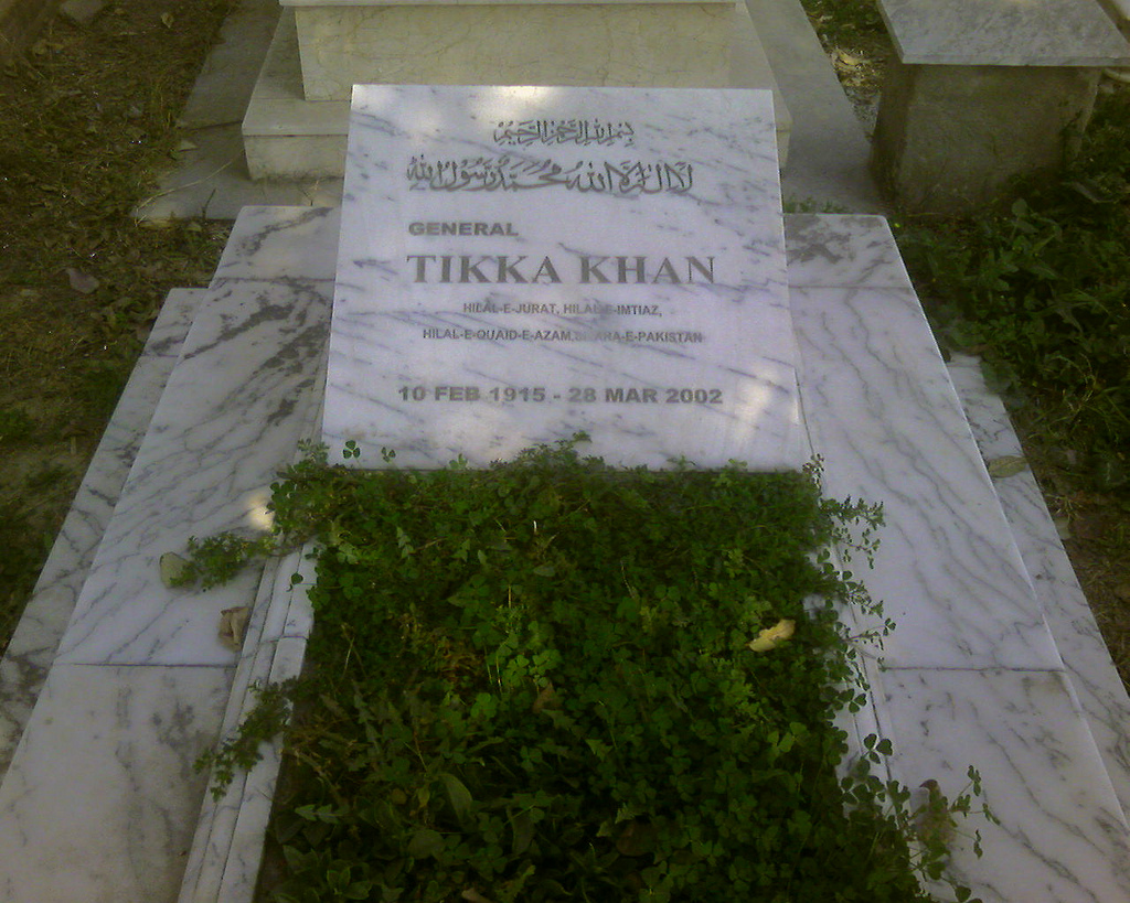 Death Stone of General Tikka Khan